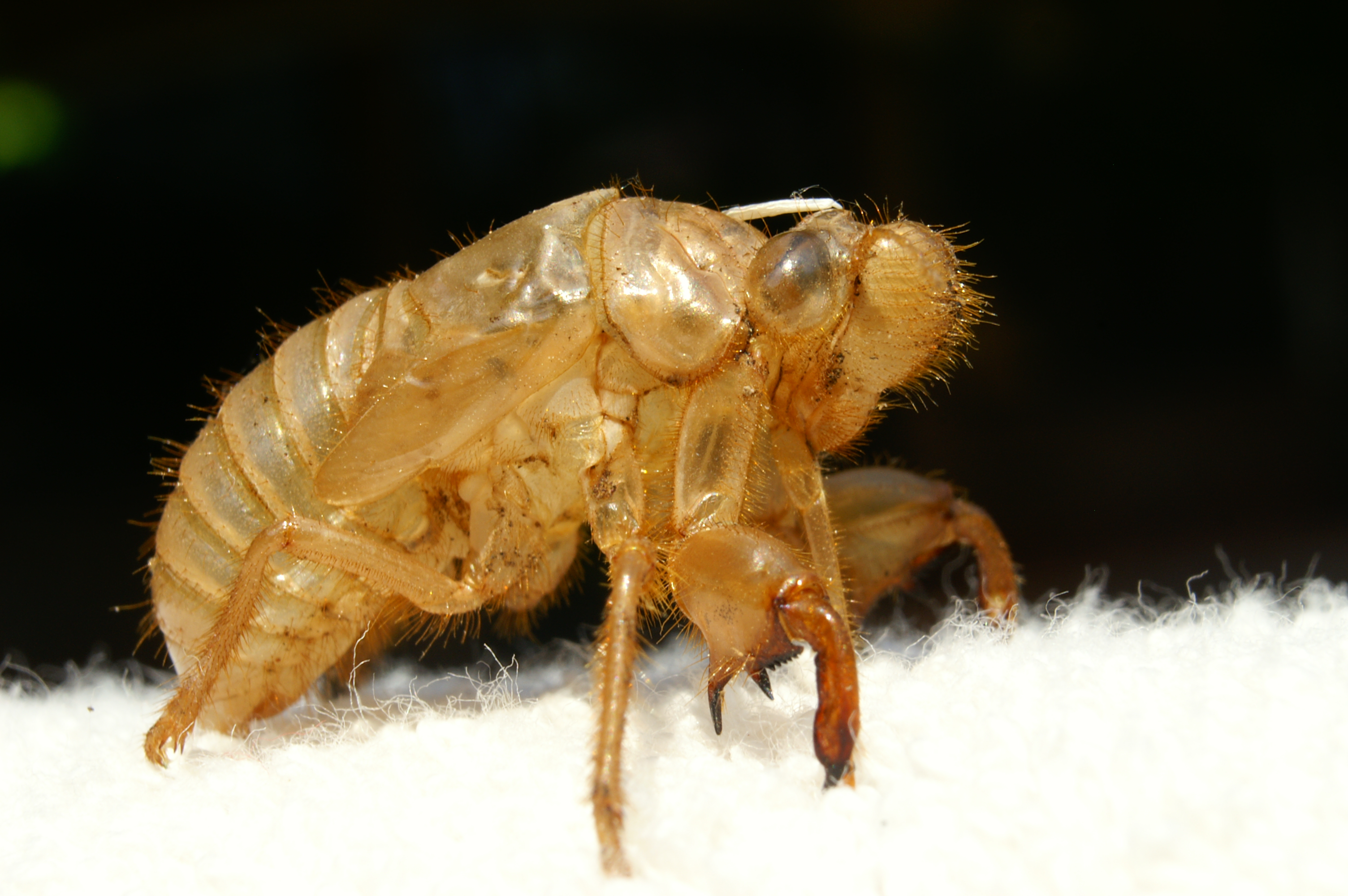 Cicada (Lyristes plebejus (Scopoli 1763), empty moult, Var (France)